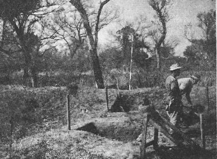 Men working in the beginning of sector M excavation in Ruinas del Km 75. That work proved that this place correspond to the extint city of Concepción del Bermejo